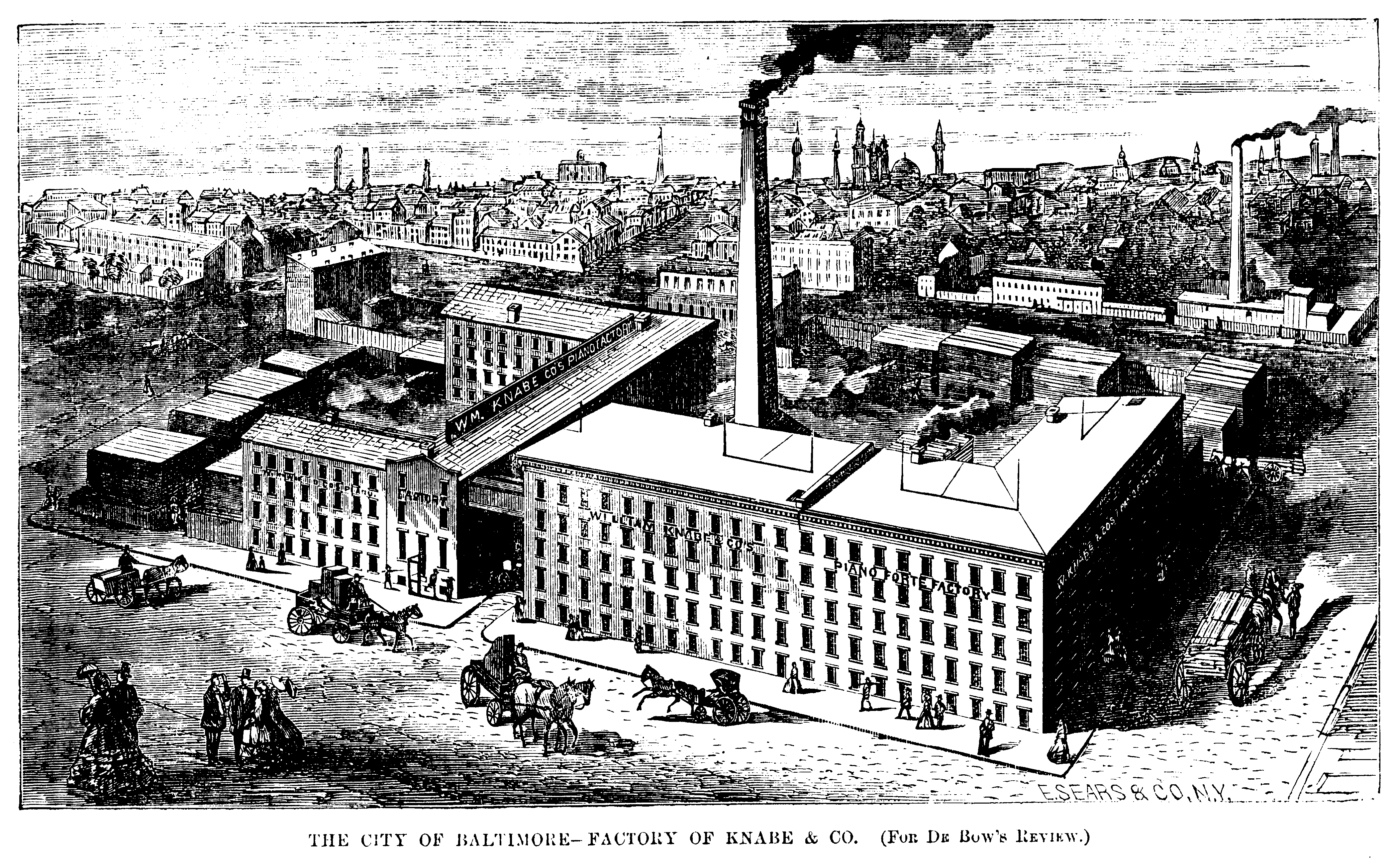 "The City of Baltimore - Factory of Knabe & Co. (for De Bow's Review)" engraving